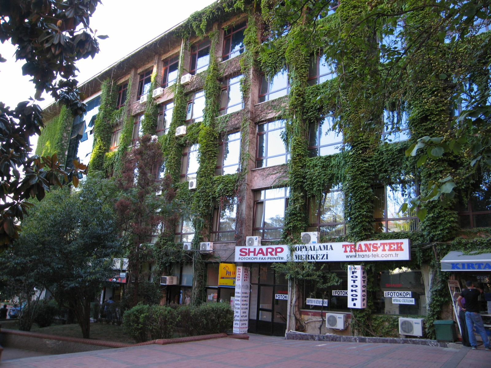 Yıldız Technical University in Istanbul, A block